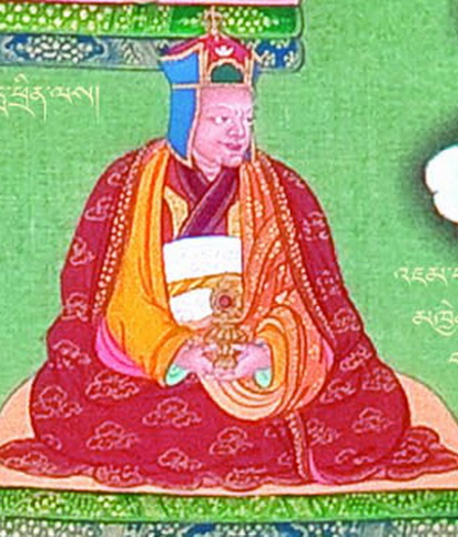 Ratna Lingpa, (1403-1478), Nyingma Terton